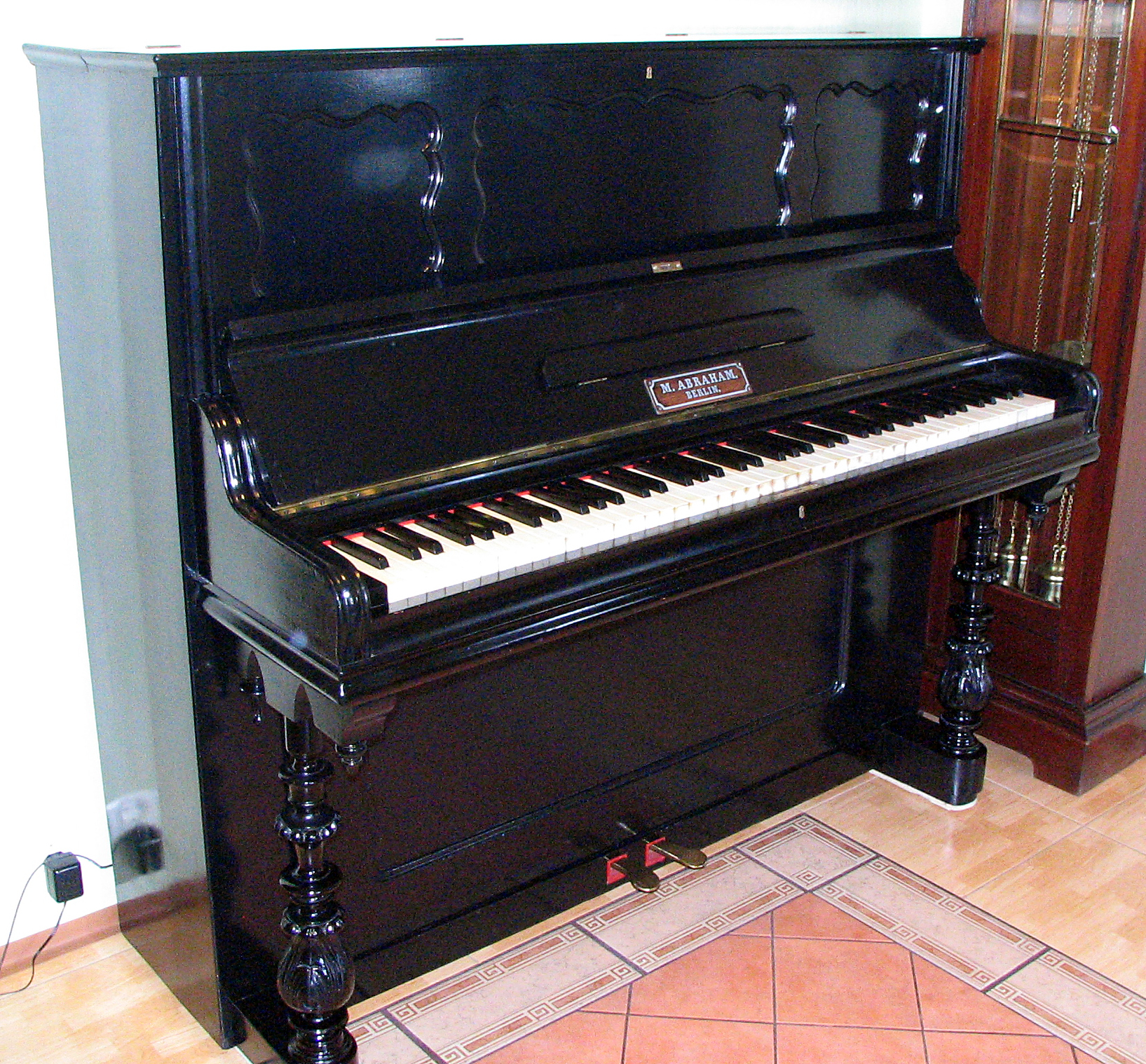 Piano M. Abraham, Berlin, about 1880